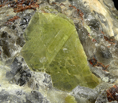 Chrysoberyl, Garnet Locality: Chrysoberyl locality, Haddam, Middlesex County, Connecticut, USA (Locality at ) Size: 9.0 x 7.8 x 6.4 cm. This piece is one of the few Chrysoberyls that I have seen from Haddam, Connecticut. It features a few sharp, distinct, somewhat lustrous, tabular yellow-green twinned crystals frozen against a matrix of deep red Garnet (probably Spessartine) and grey Smoky Quartz. The Chrysoberyl group, which measures 2.7 cm across, is contacted on one end, but the terminations are visible and complete, even though they are slightly pushed into the matrix. A fine specimen of this rarely seen material from Connecticut. Ex. Allen Heyl Collection.